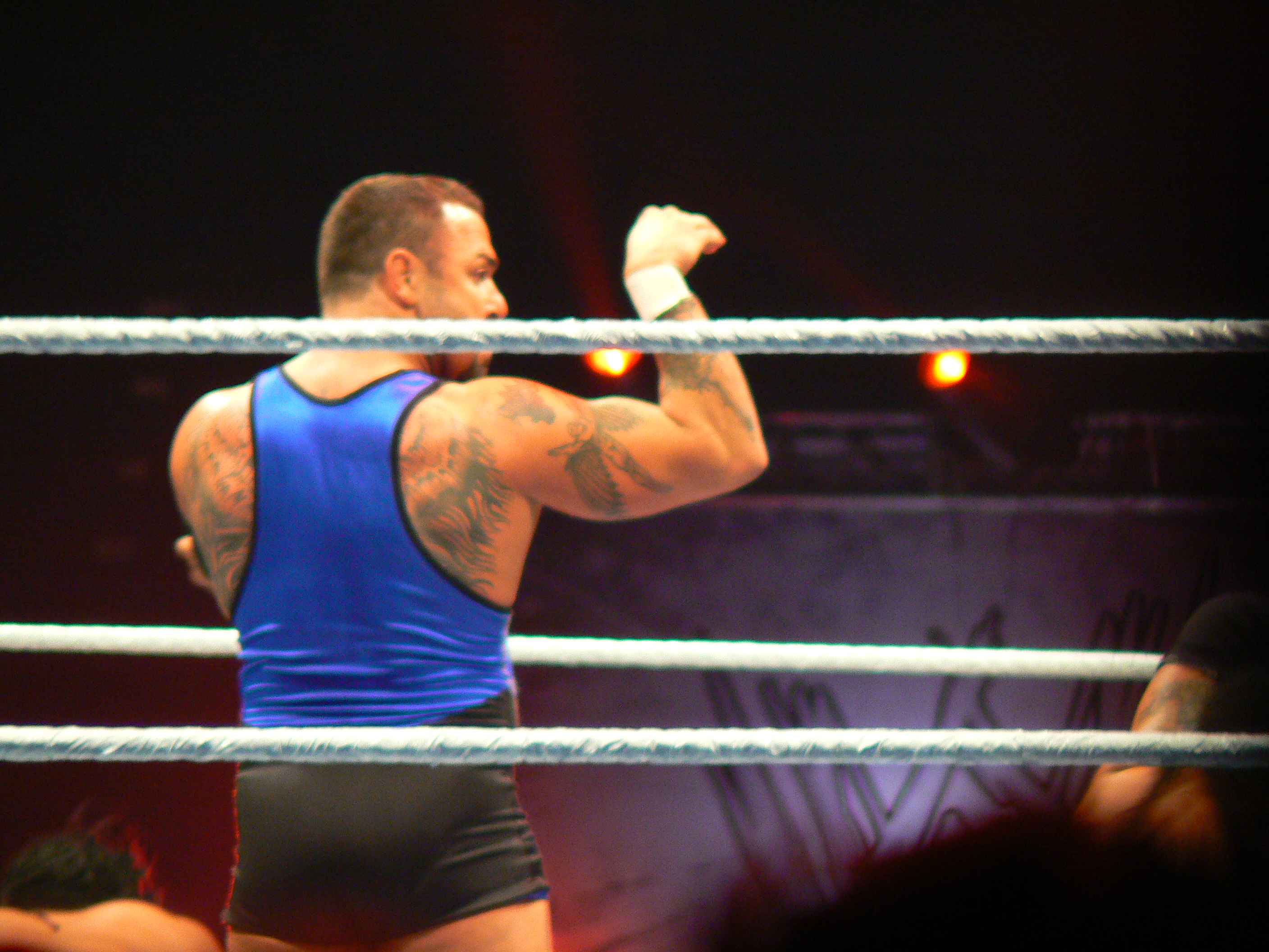 WWE Raw - O2 Tuesday 9th November 2011 026